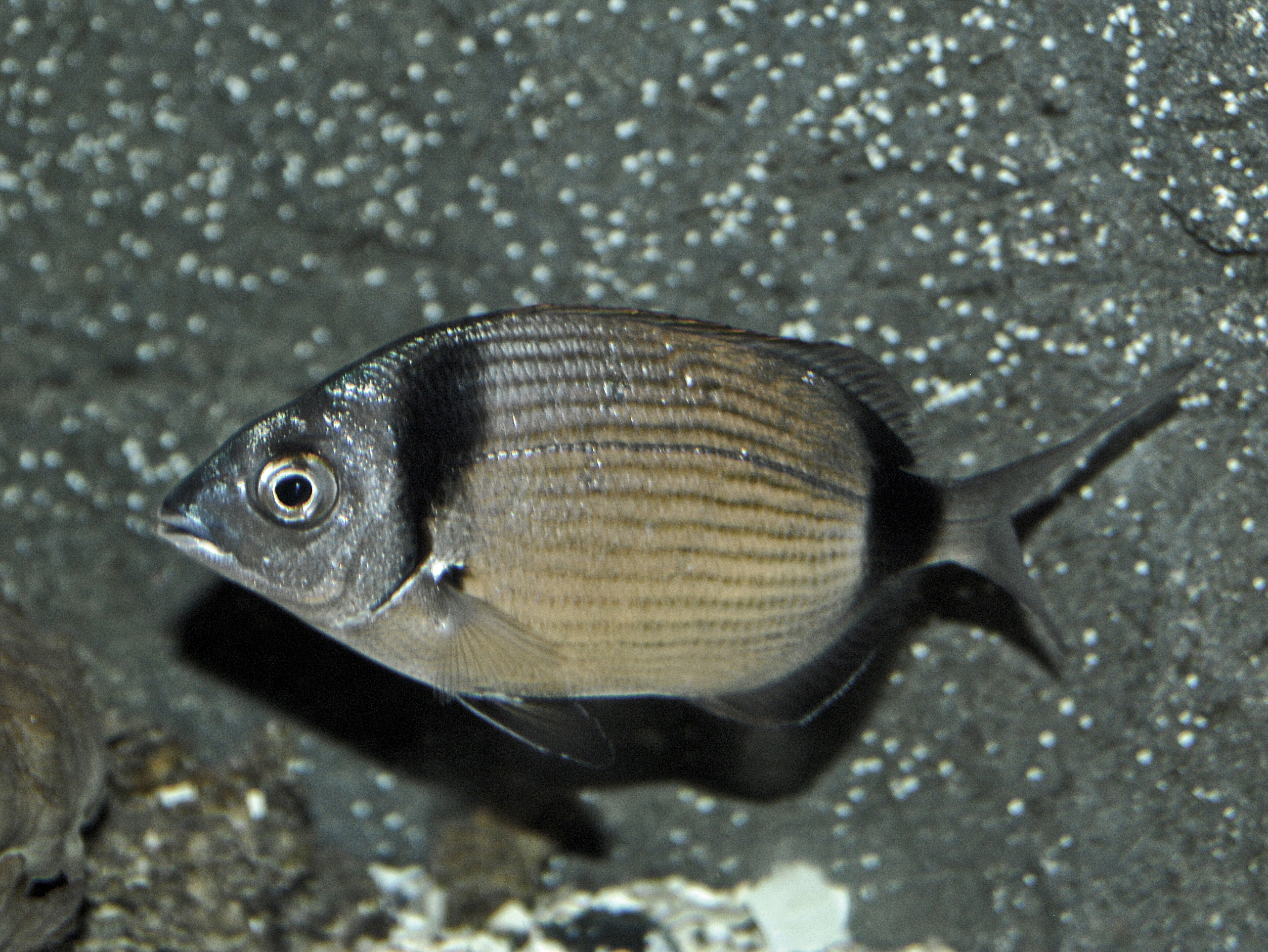 Diplodus vulgaris. On display at the Aquarium of Genova